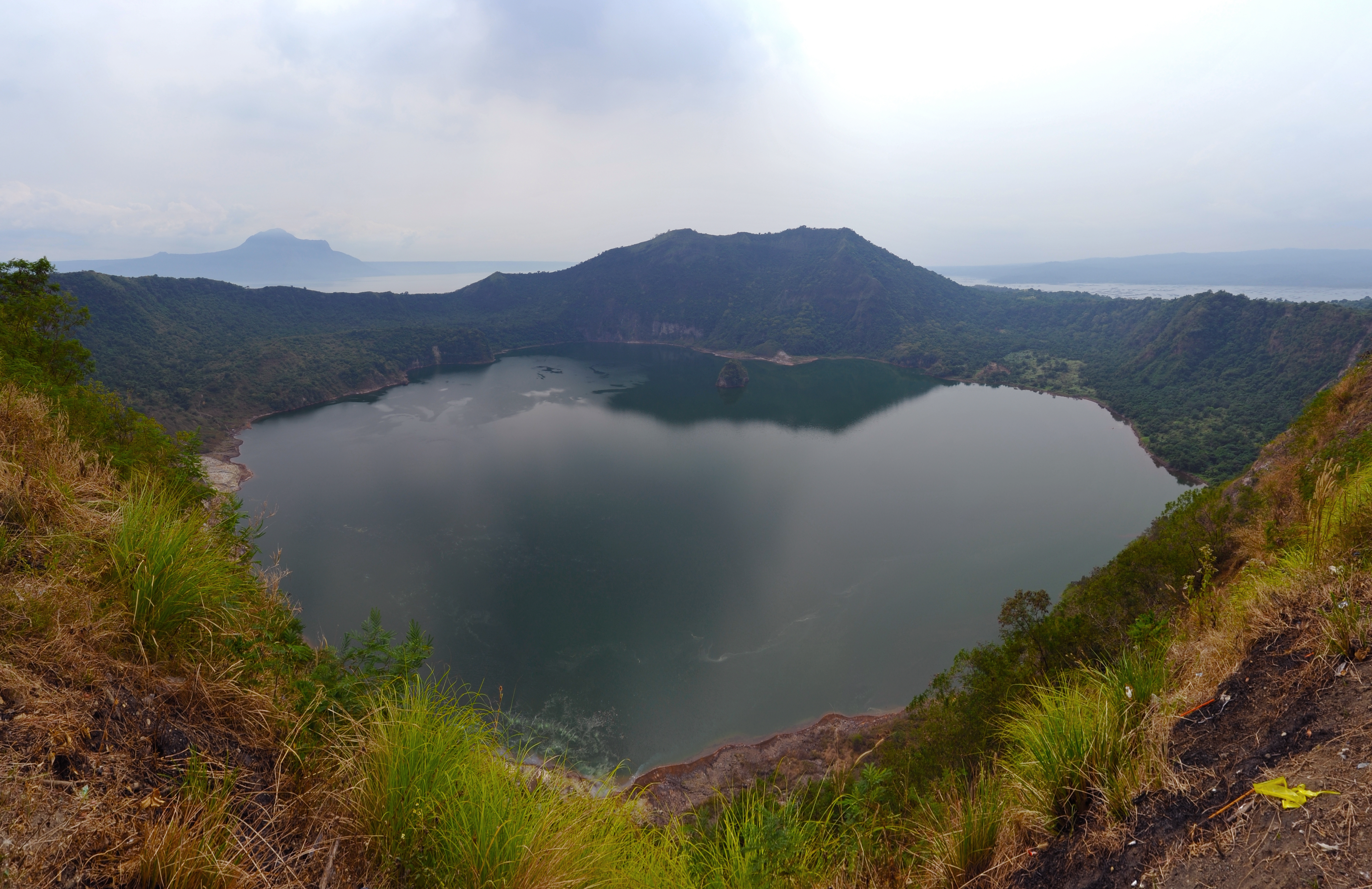 lake taal volcano crater lake tagaytay philippines 2011